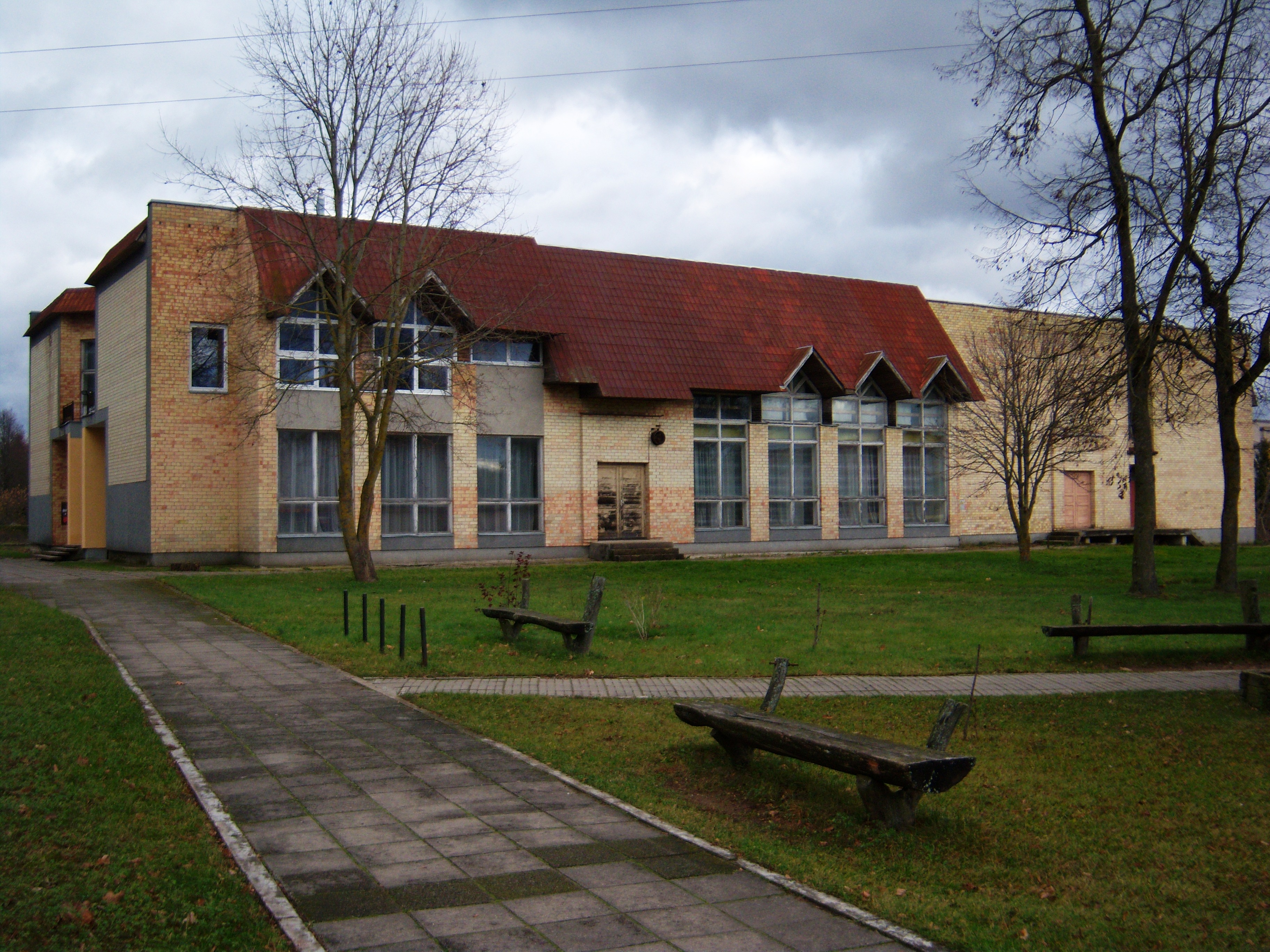 Antašava, Kupiškis District, Lithuania